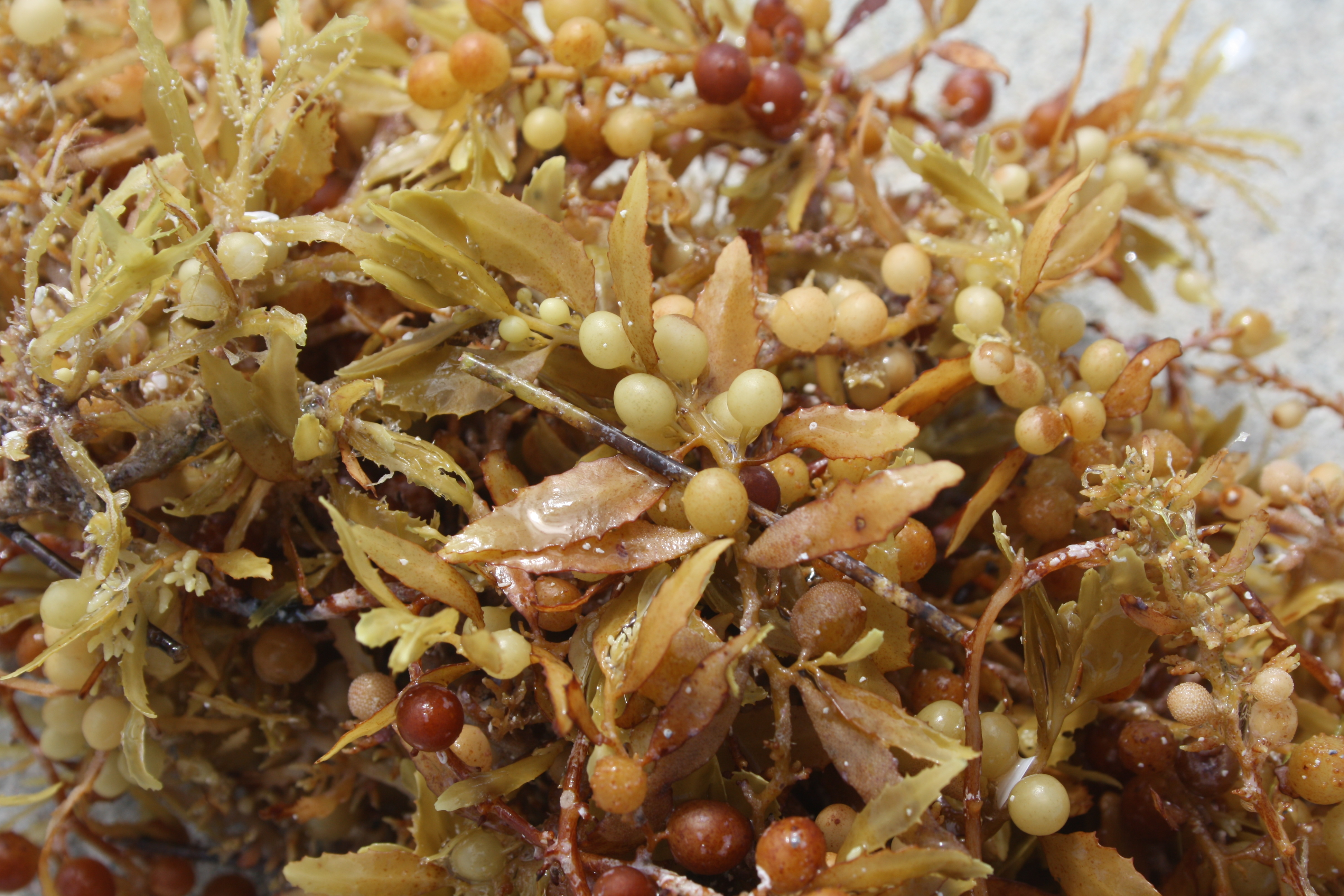 Sargassum washed up on the beach, Cuba